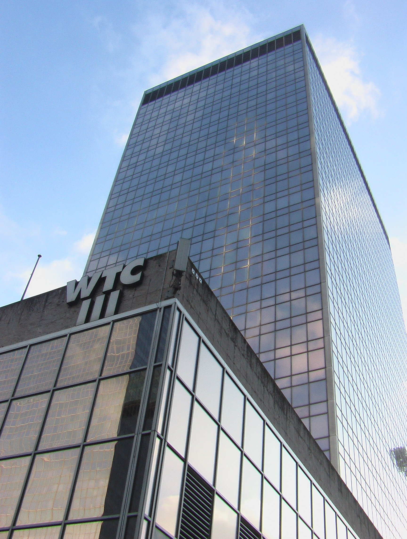 WTC III Brussels